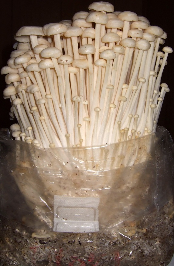 fungi